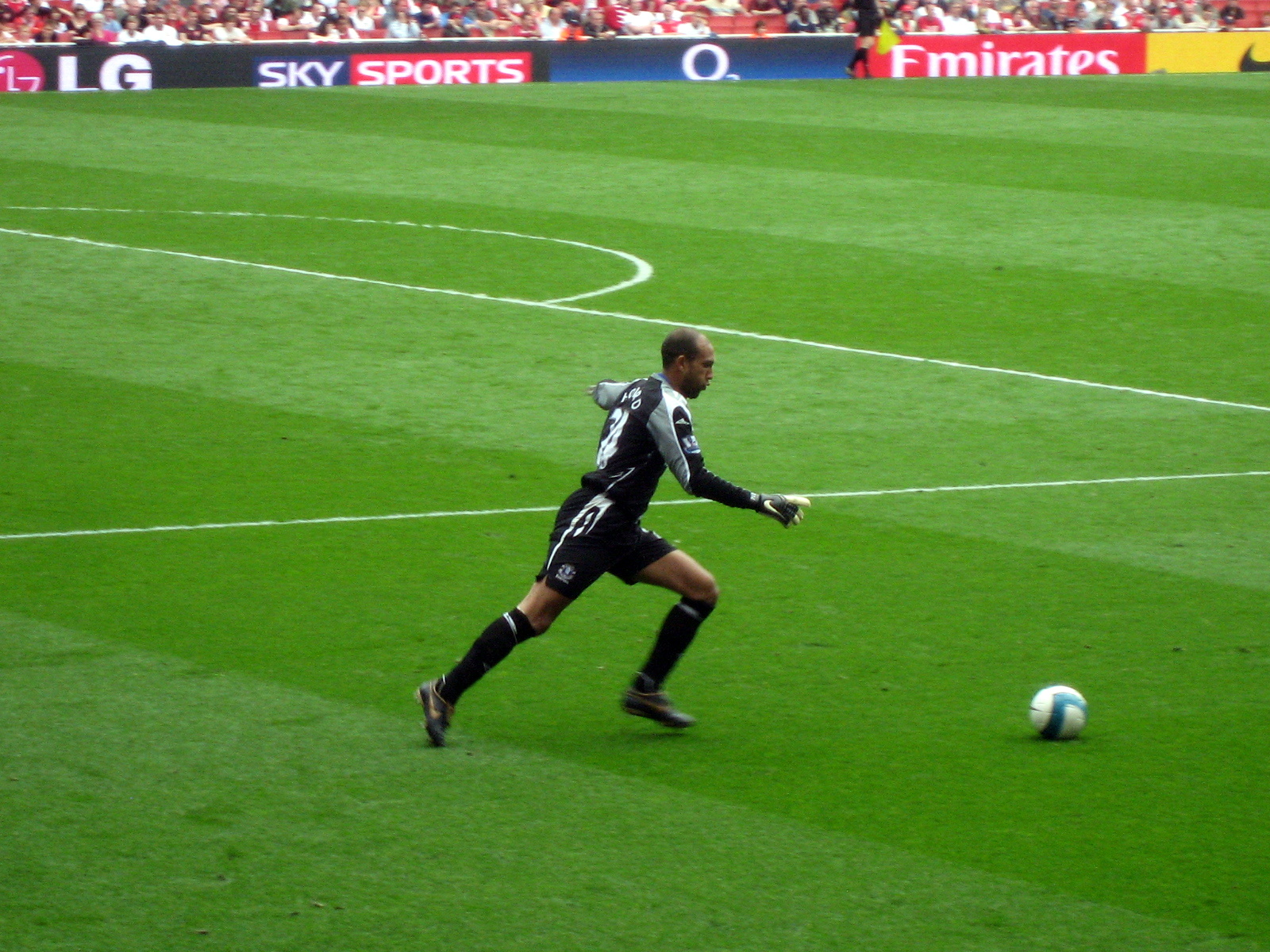 Tim Howard playing for Everton against Arsenal at the Emirates Stadium in the 2007–08 season.